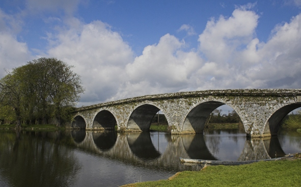 Bennett's Bridge River Nore bridge carrying the R700 at Bennettsbridge